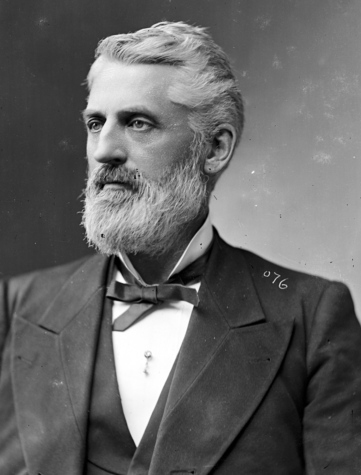 Charles C. Ellsworth, US Representative from Michigan